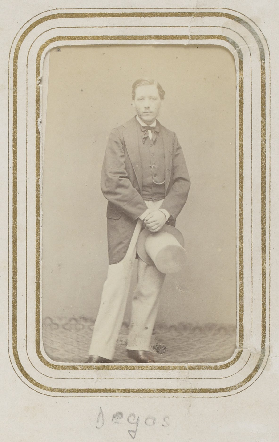 Edgar Degas (1834 - 1917), french painter, engraver, sculptor and photographer. This picture comes from a photo-album belonging to Édouard Manet